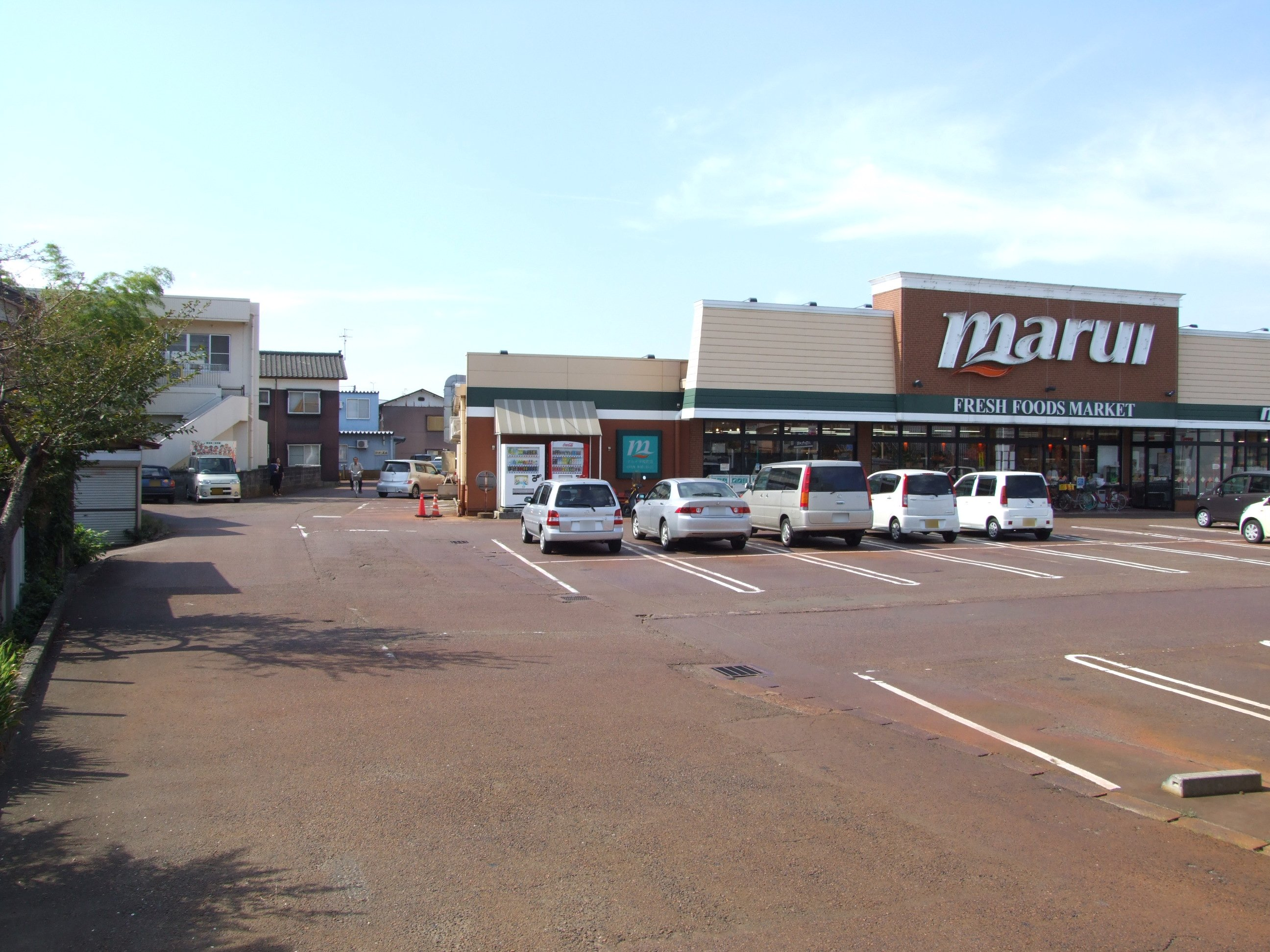 Remains of Doaiguchi Station Tochio Line in 2011